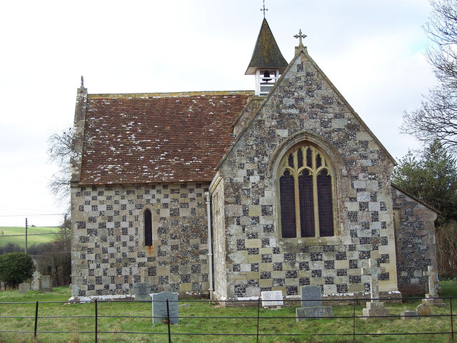 St Nicholas of Mira's parish church, Little Langford, Wiltshire, seen from the east. On the left is the south transept. On the right is the east end of the chancel.